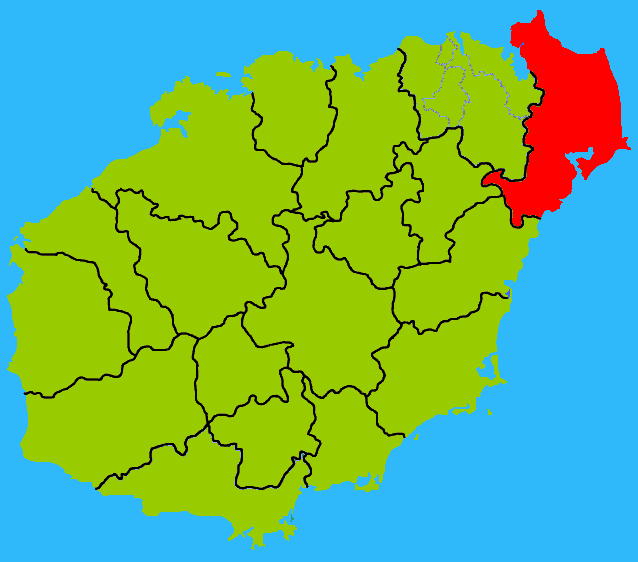 Hainan subdivisions - Wenchang